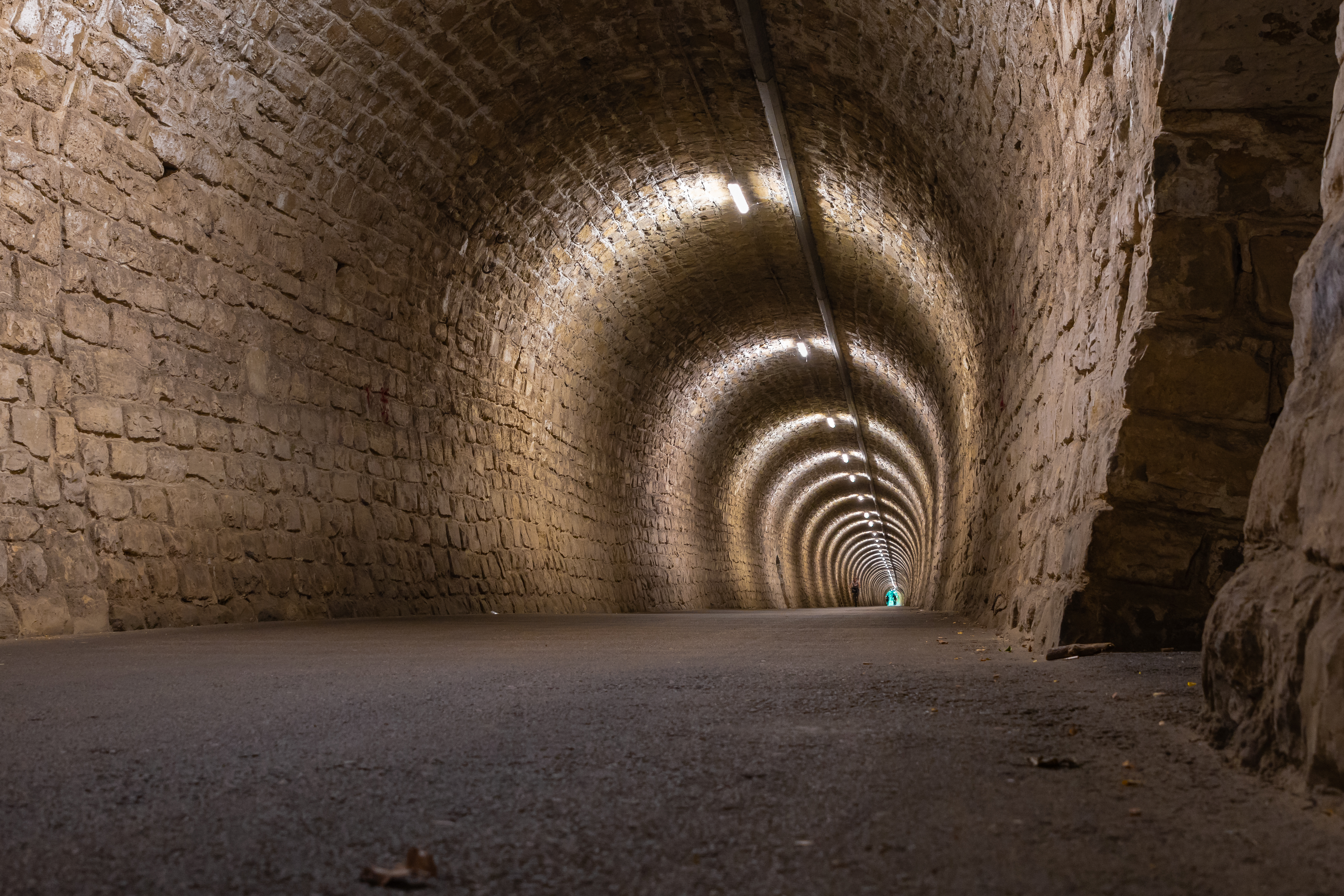 The tunnel Valeta is connecting Strunjan and Portorož. Nowadays used as pedestrian and cyclists shortcut the tunnel was part of the narrow gauge railway Parenzana, operated between 1902 and 1935 between Trieste and Poreč (Italian: Parenzo).